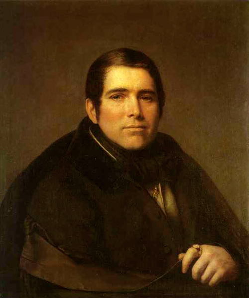 Portrait of Pyotr Pletnyov (1836). The Pushkin Museum in St Petersburg.